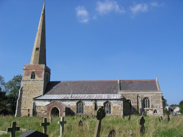 St. Peter's Church, South Somercotes, near to South Somercotes, Lincolnshire, Great Britain.